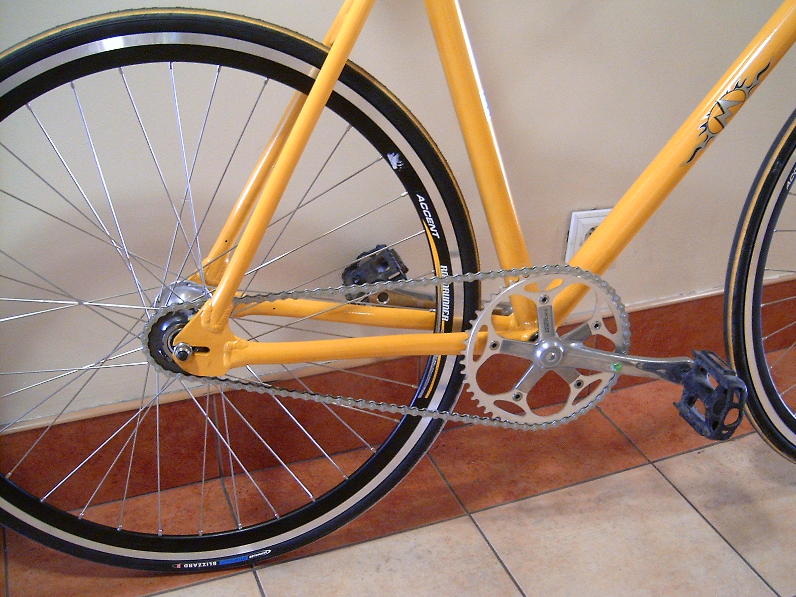 Fixed gear - drive.